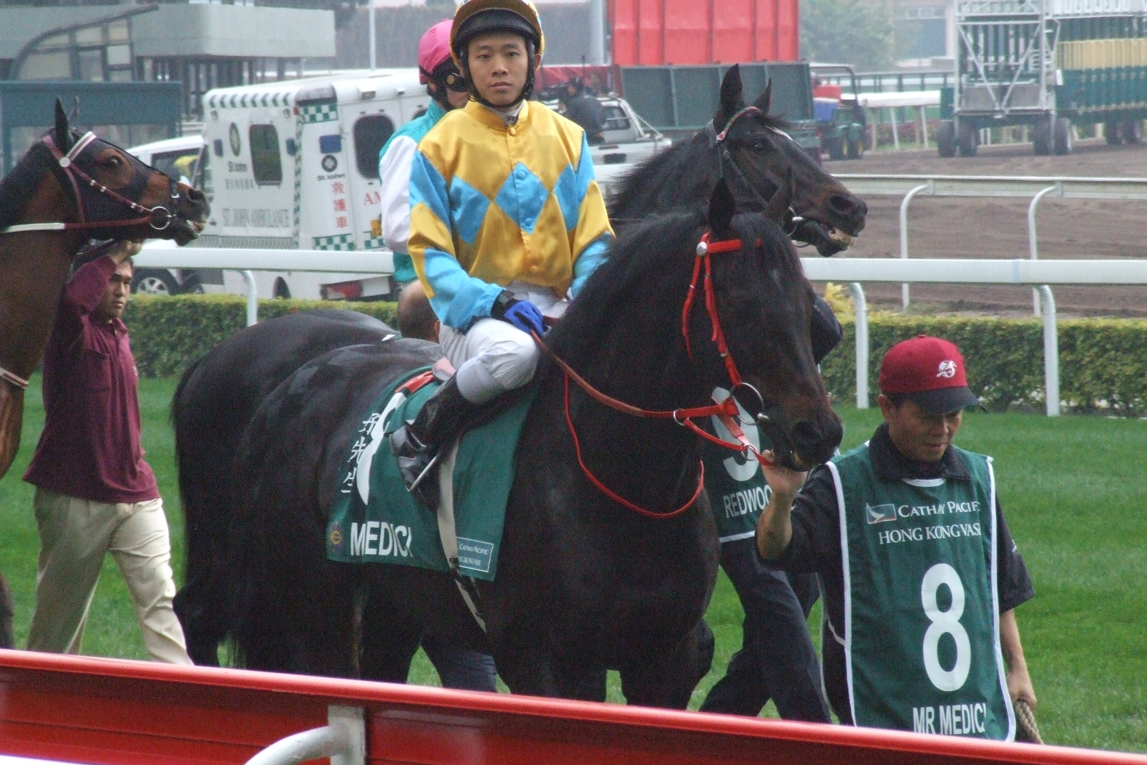 Mr Medici 中文（香港）: 好先生